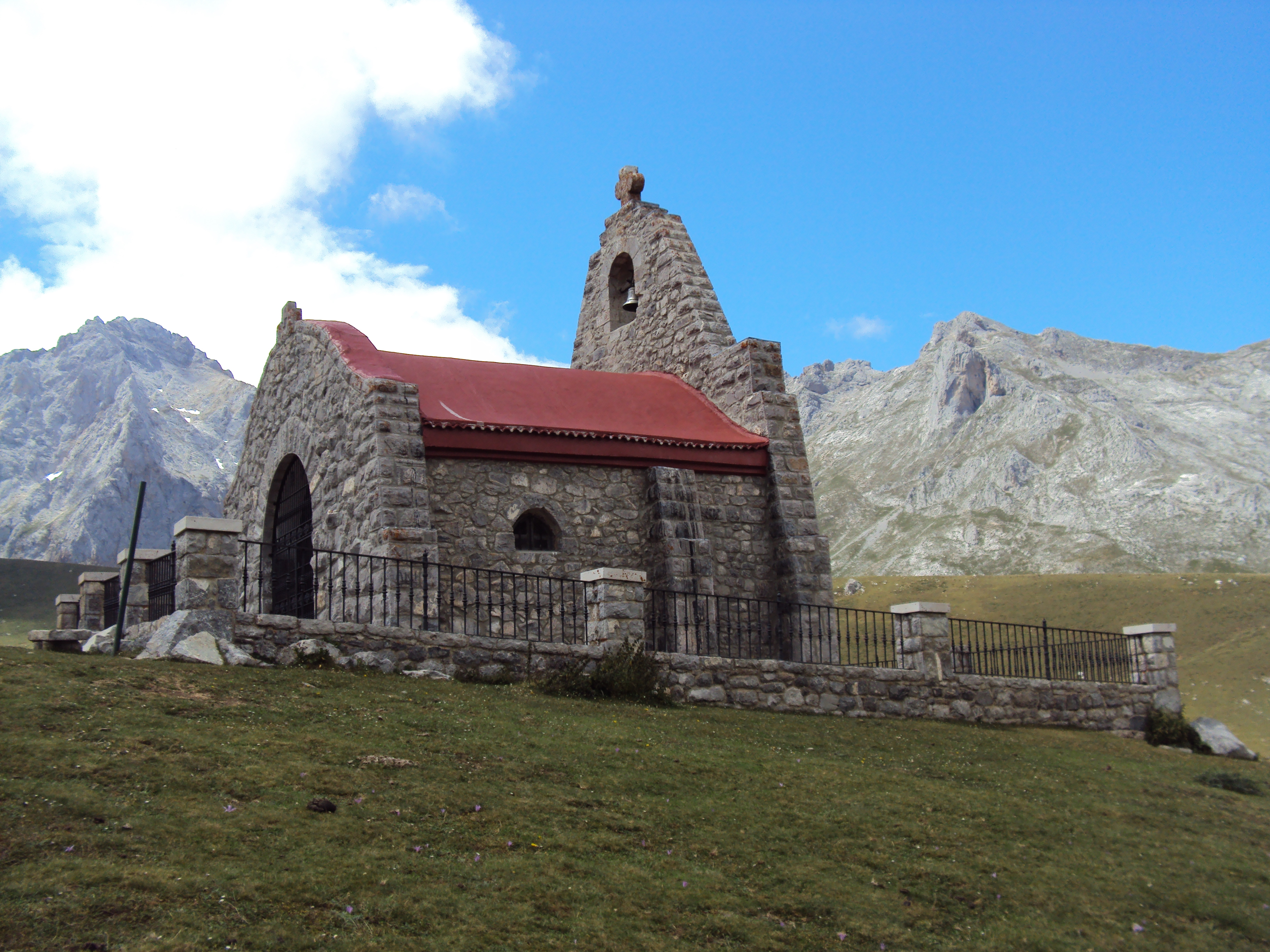 This is a photography of a Site of Community Importance in Spain with the ID: ES0000003. Natura2000 entry, EEA entry